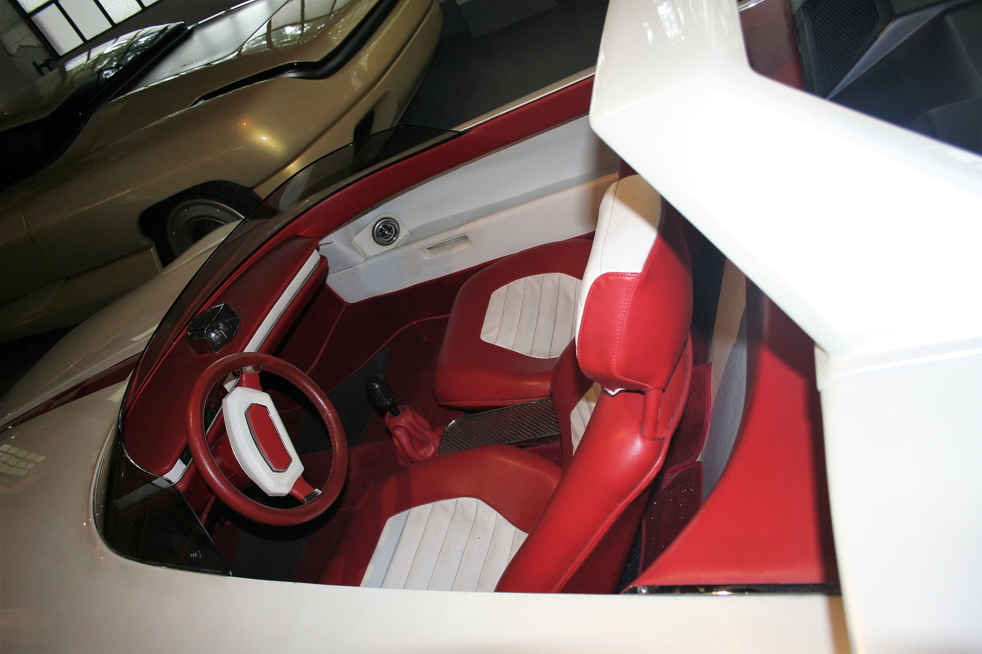 At the Bertone collection of the Automotoclub Storico Italiano (ASI), located in Volandia outside of Milan (by the Malpensa airport and museum areas